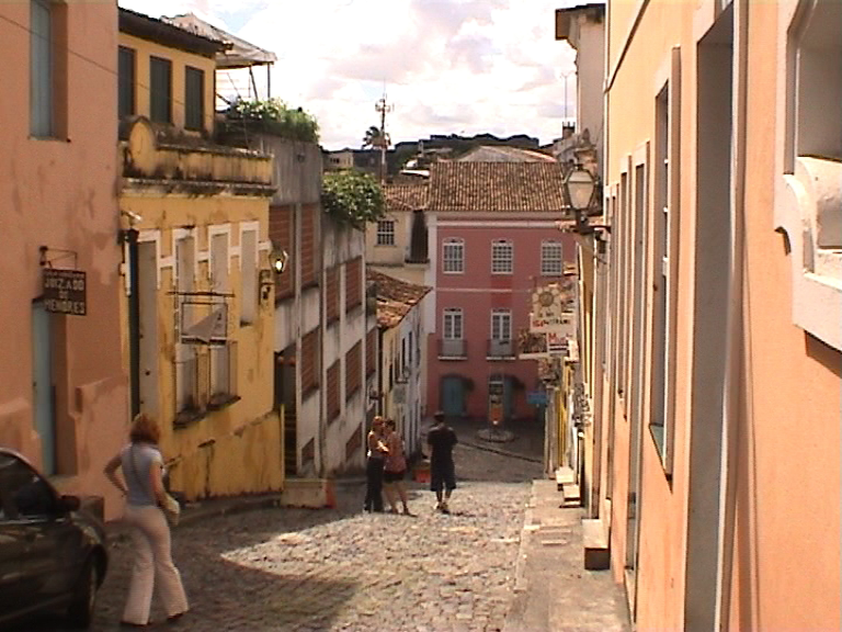 Pelourinho